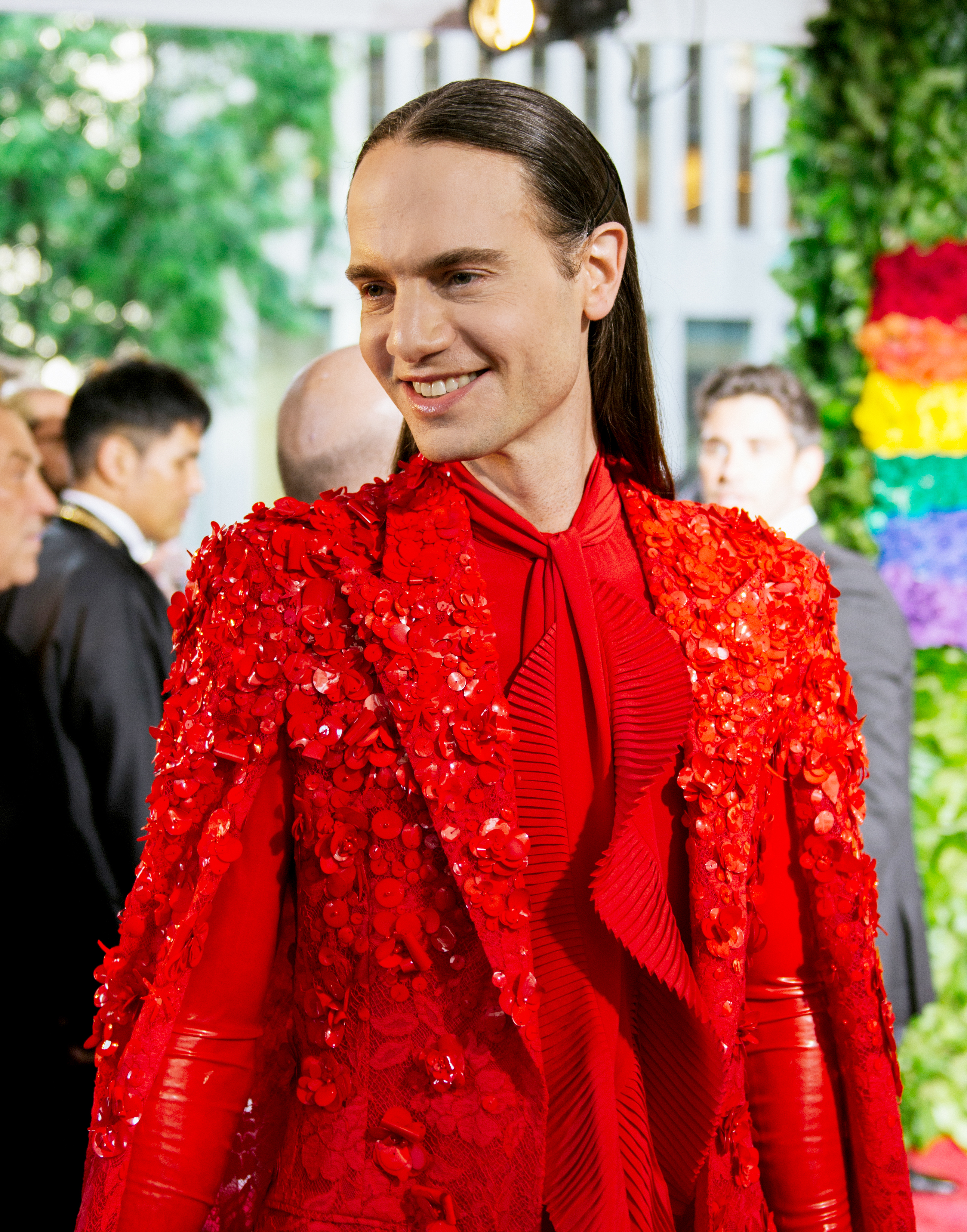 Jordan Roth at the 2019 Tony Awards. On the red carpet at Radio City Music hall in custom Givenchy.